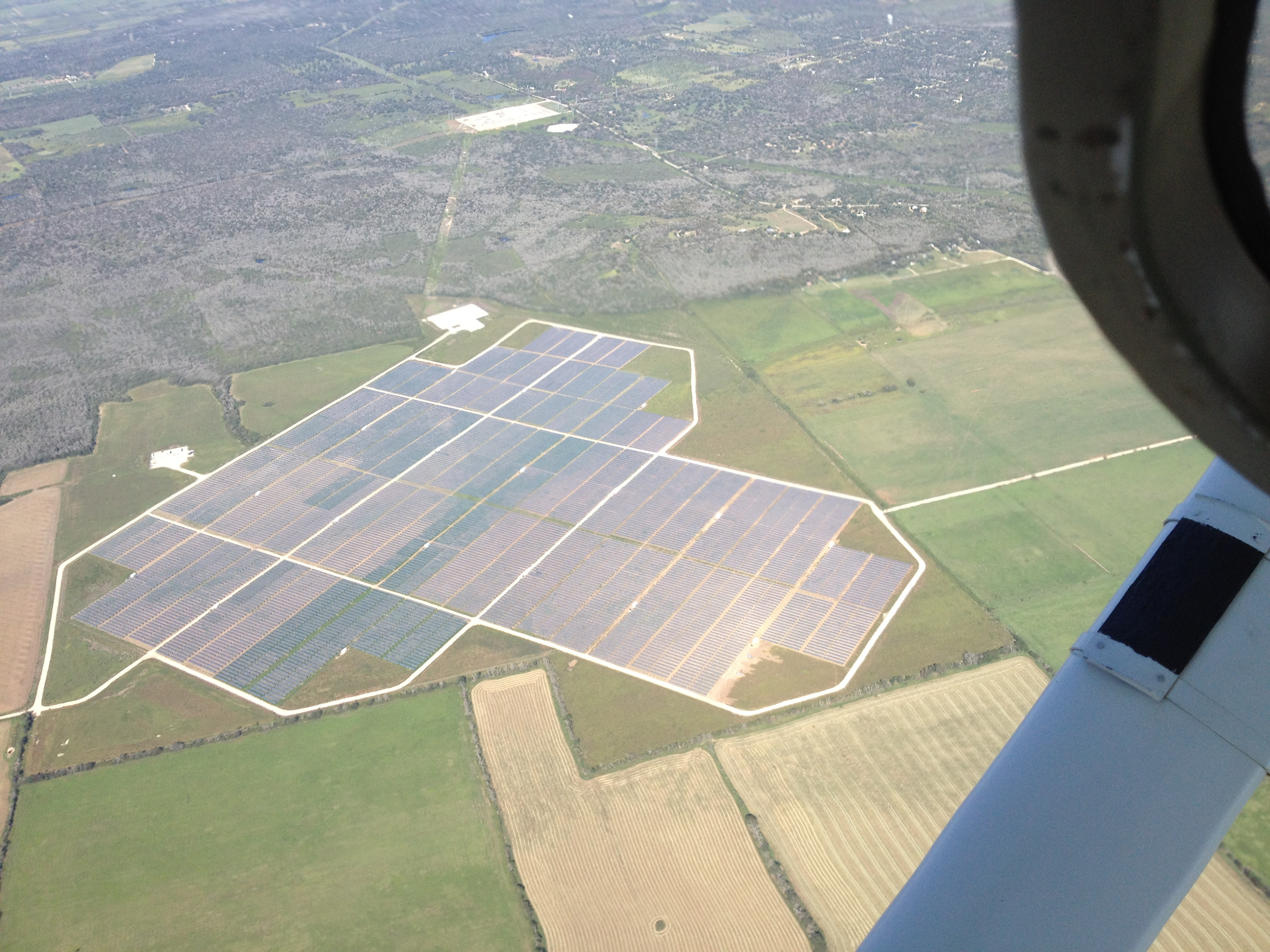 Aerial view of the Webberville Solar Farm, photographed from the southwest at approximately 3000 feet.